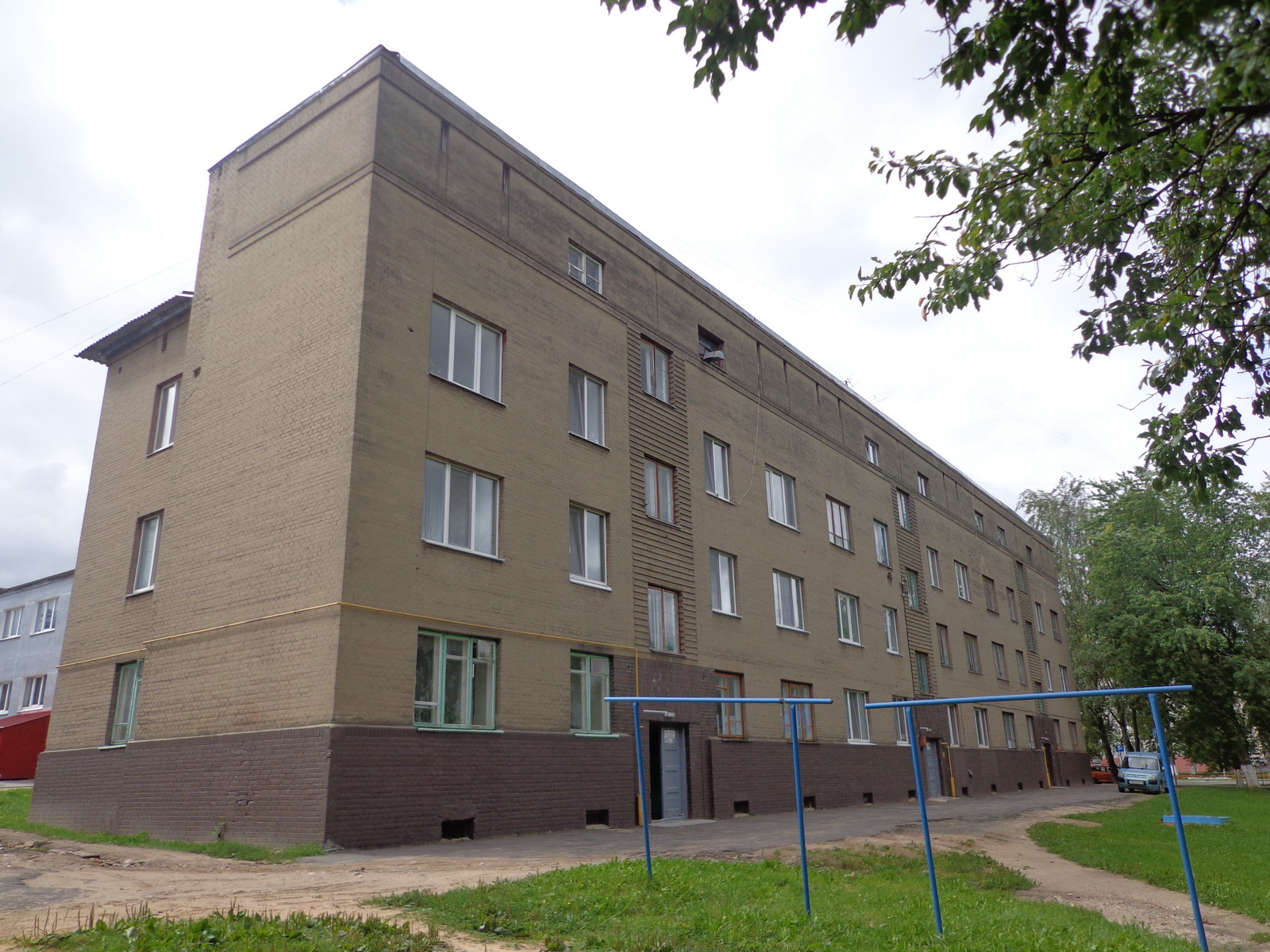 Residential house for officers of the Polish Army. Maladzyechna. Helyanowa. Built in the 1930s.